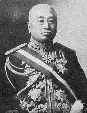 Kototada Fujinami